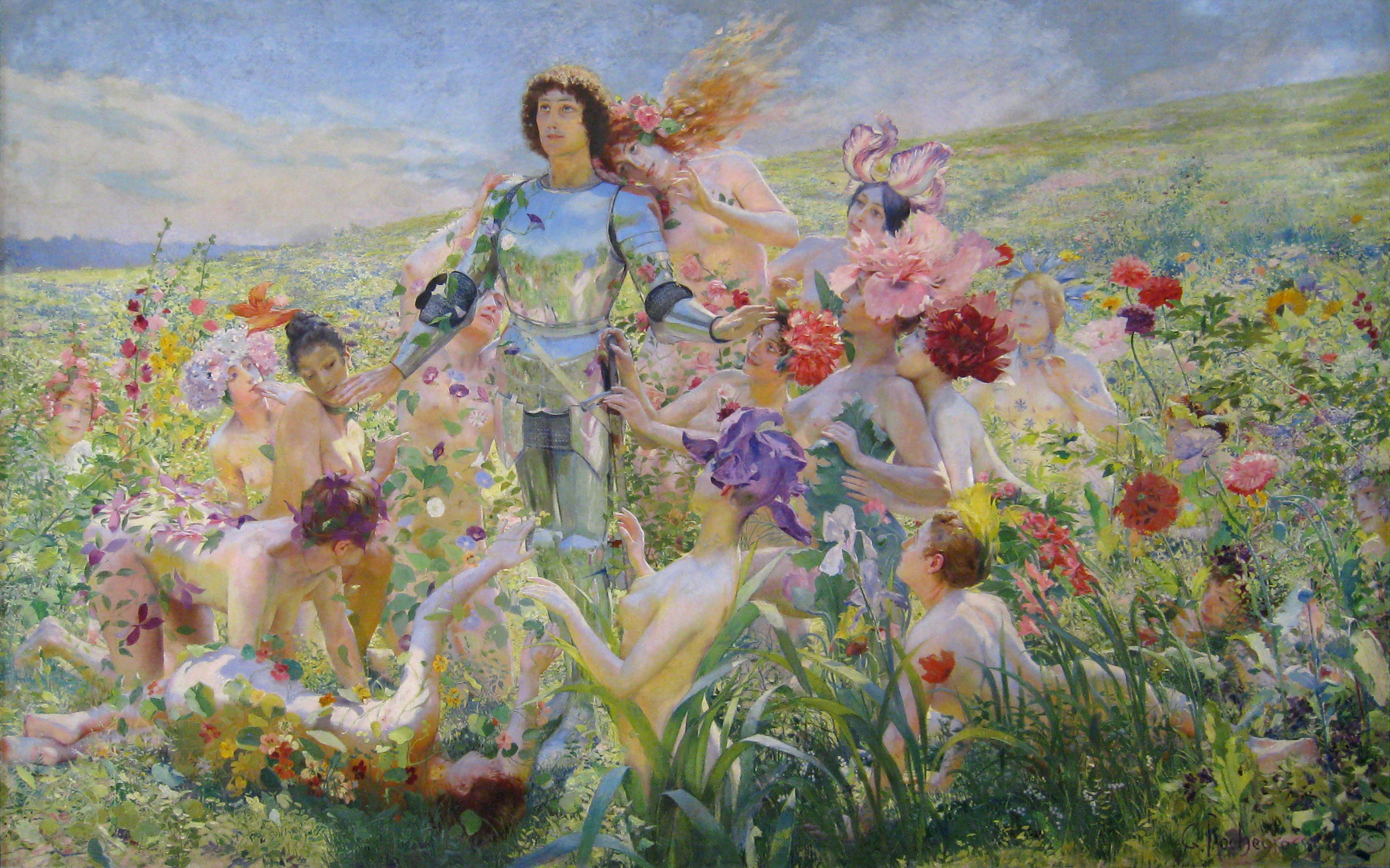 Le Chevalier aux Fleurs by Georges Rochegrosse (1894 Musée d'Orsay, Paris) is a spectacular painting 3.76m wide of the knight Parsifal whose shining armor reflects the field of flowers and frolicking women that surround him.